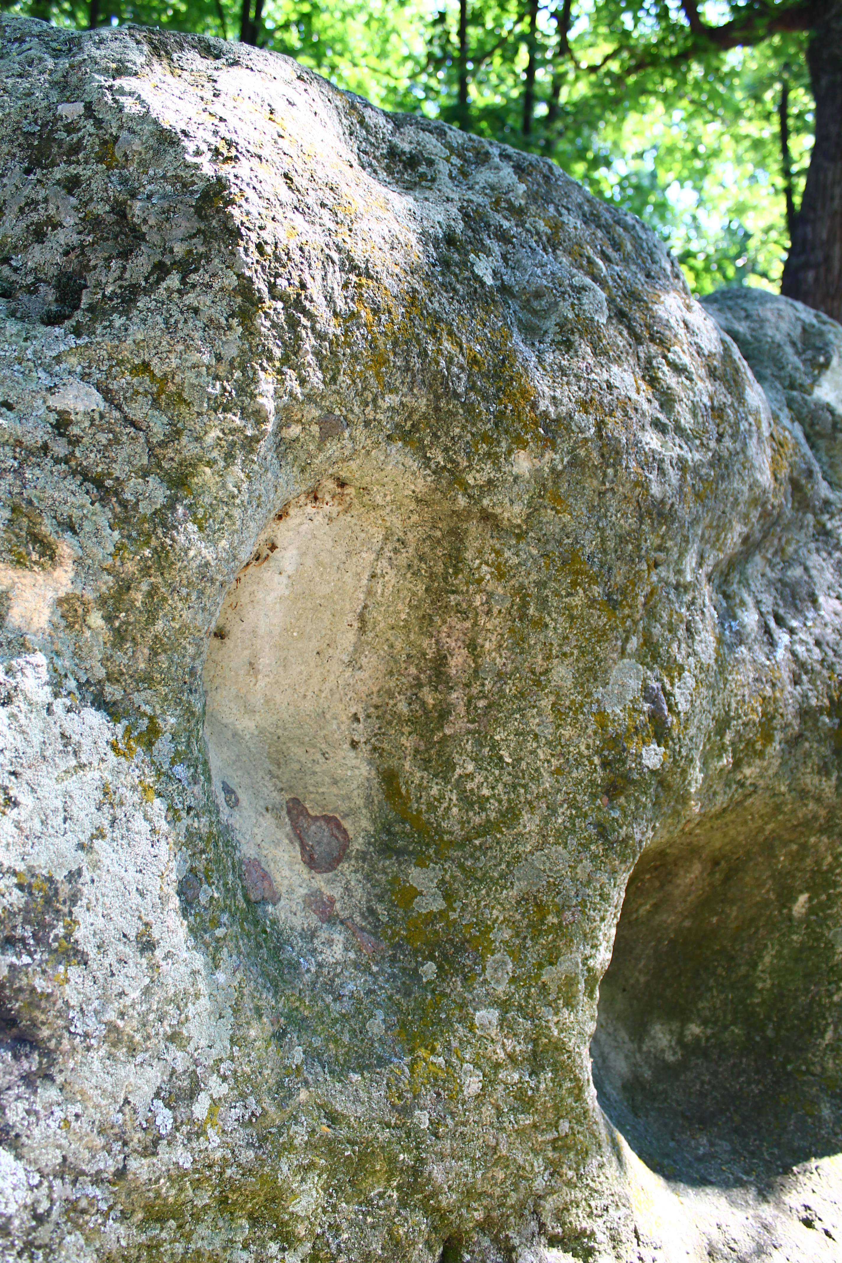 The step of Virgin Mary Haskovski Mineralni Bani Bulgaria 01